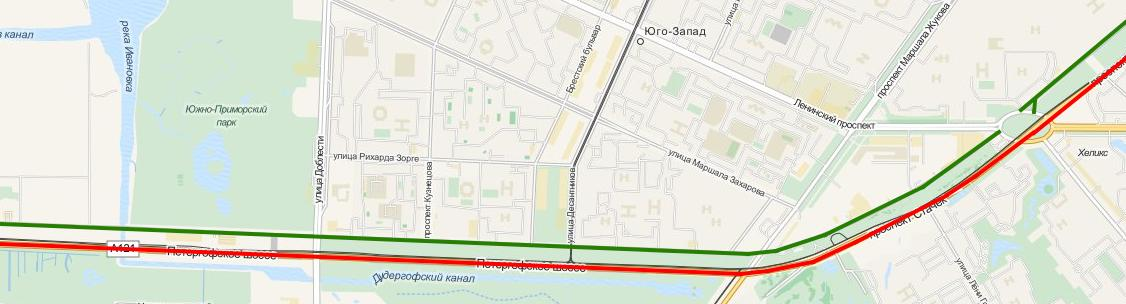 Petergofskoye highway and Stachek prospekt from Doblesti street to Kronshtadtskya square. Red line - main carriageway, green line - side road